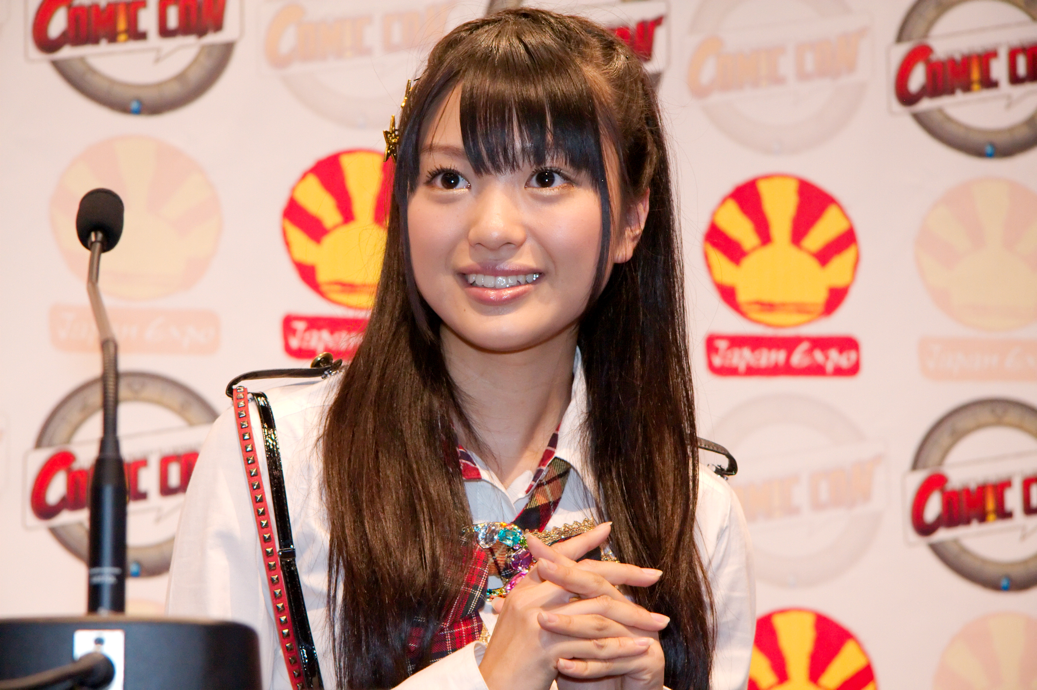 Rie Kitahara of AKB48 during lecture at Japan Expo 2009 (Paris, France).